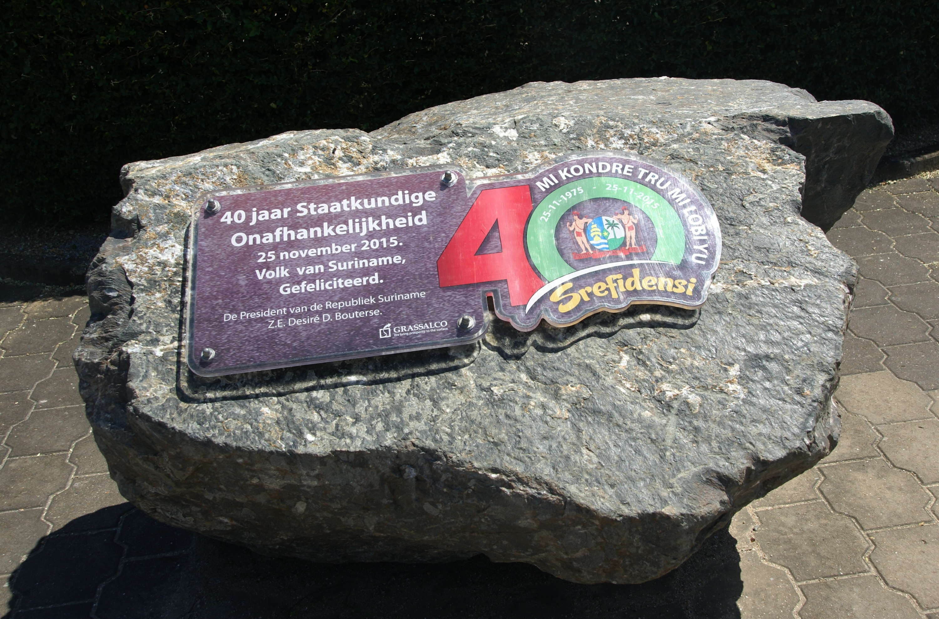 Monument 40 year independence, Onafhankelijkheidsplein, Paramaribo, Surinam.